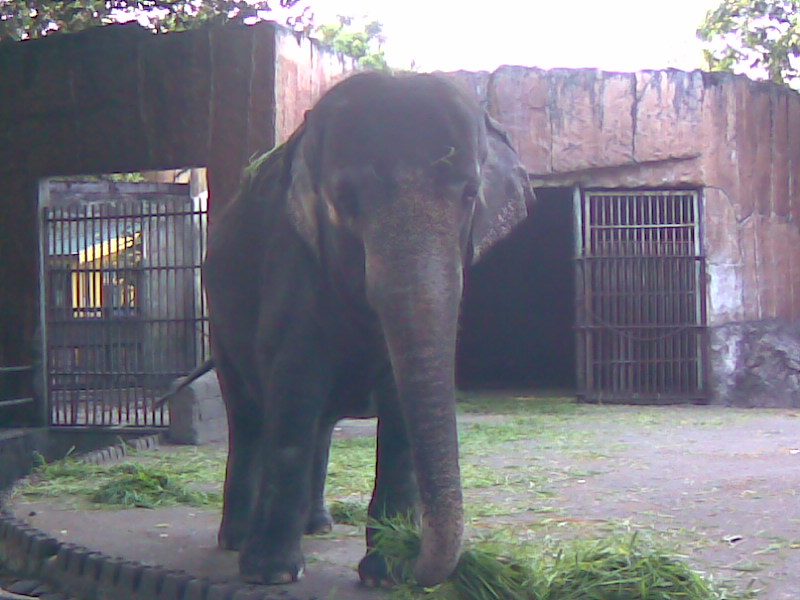 Mali, the Asian Elephant of Manila Zoological and Botanical Garden.